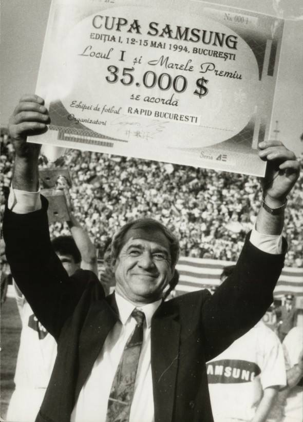 Viorel Hizo in 1994.